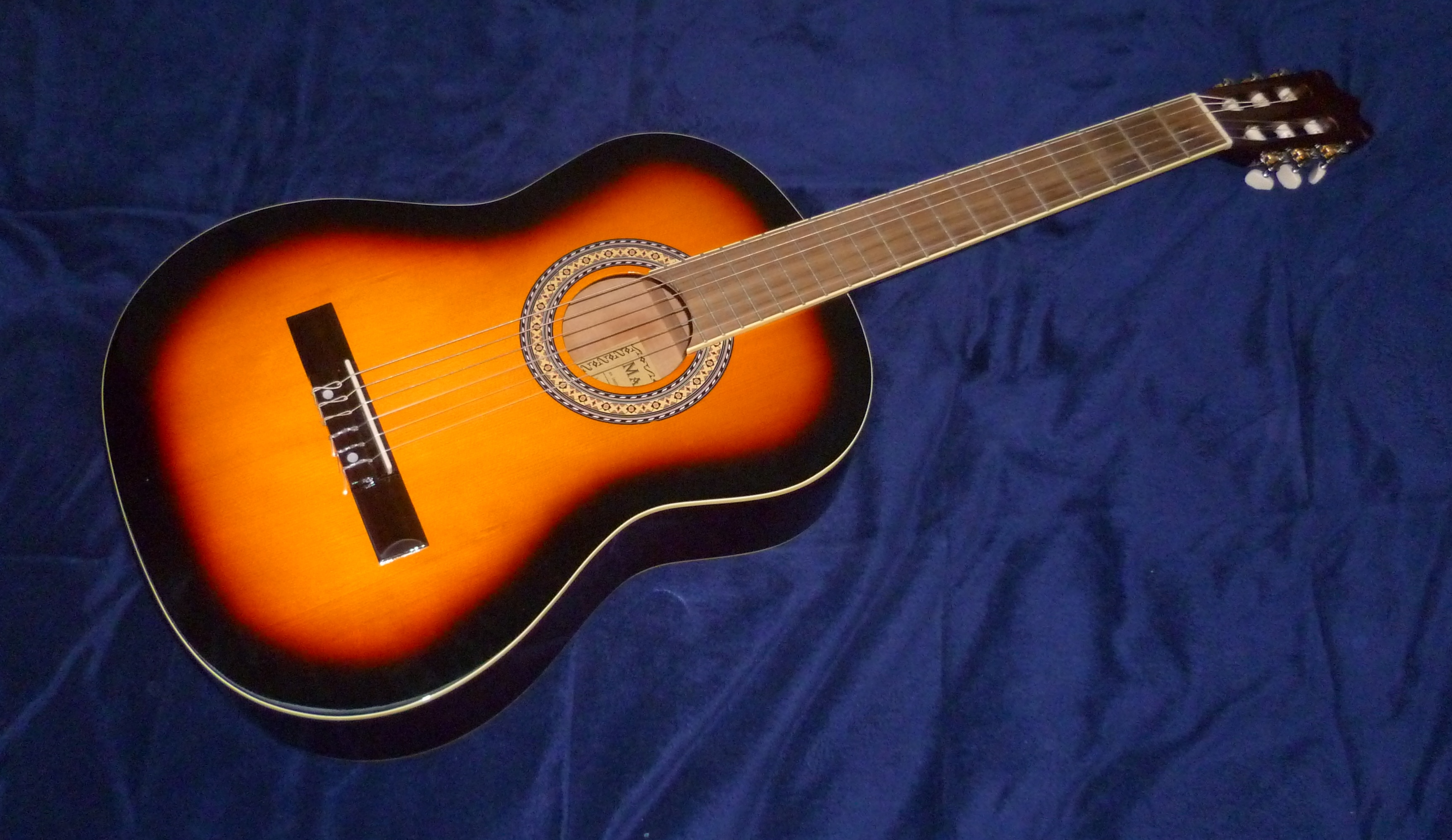 The guitar "Martinez FAC-504"; color: sunburst